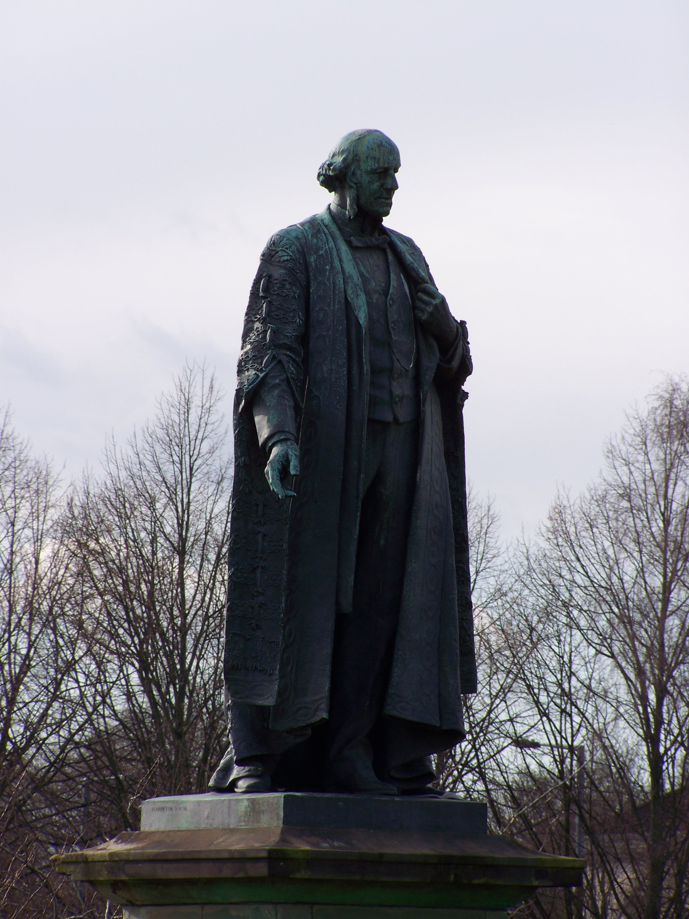 Statue of Henry Austin Bruce, 1st Lord Aberdare, overlooking Cardiff University